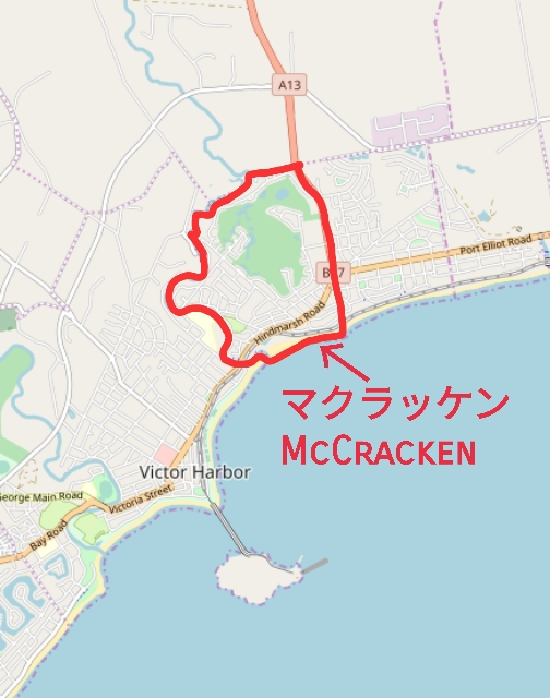 Indicating the location of McCracken, South Australia